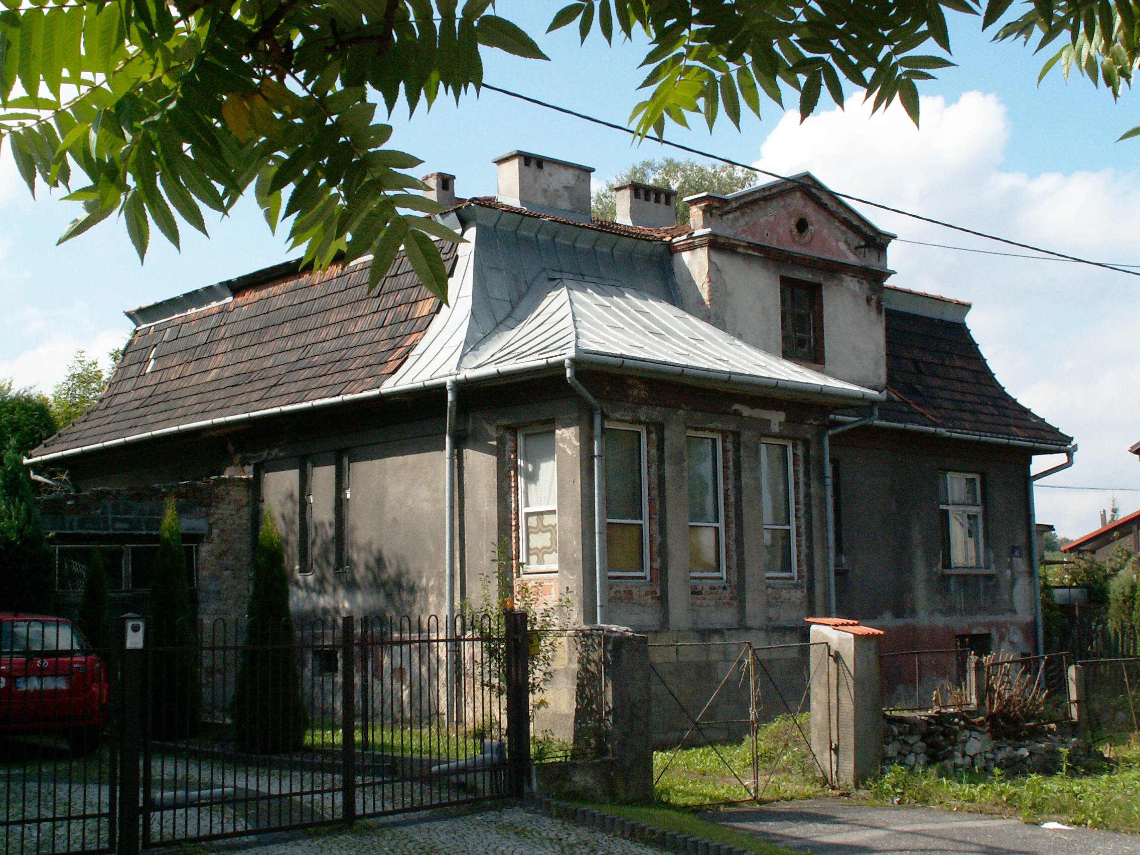 Amon Göth German Concentration Camp Plaszow Commander's Villa, 22 Heltmana street,Krakow,Poland